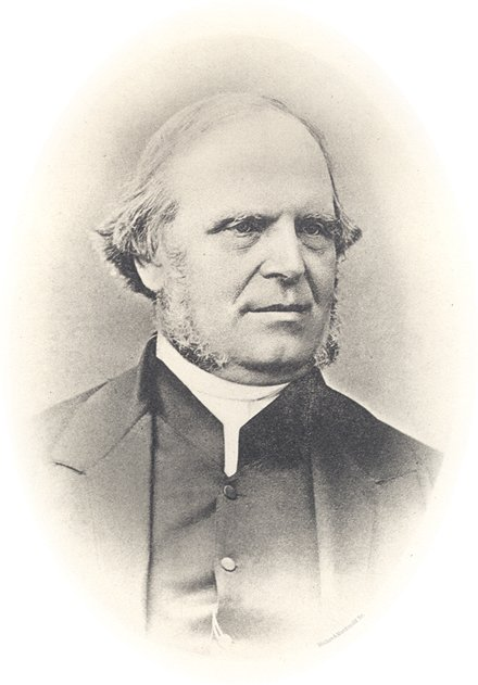 Portrait of Patrick Fairbairn from Memoirs and portraits of one hundred Glasgow men by James MacLehose, 1886.